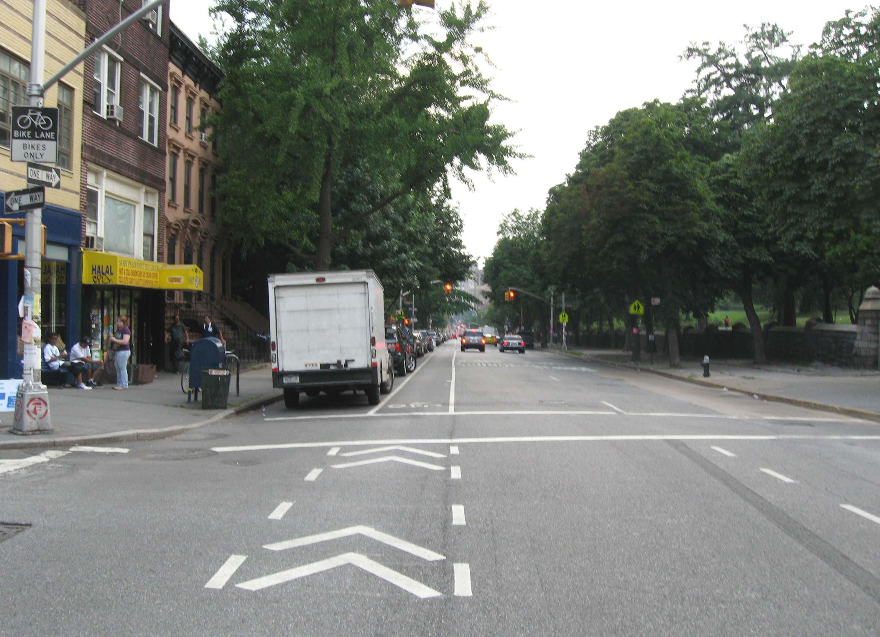 Looking west across Cumberland Street on DeKalb Avenue at Fort Greene Park on a partly cloudy day.